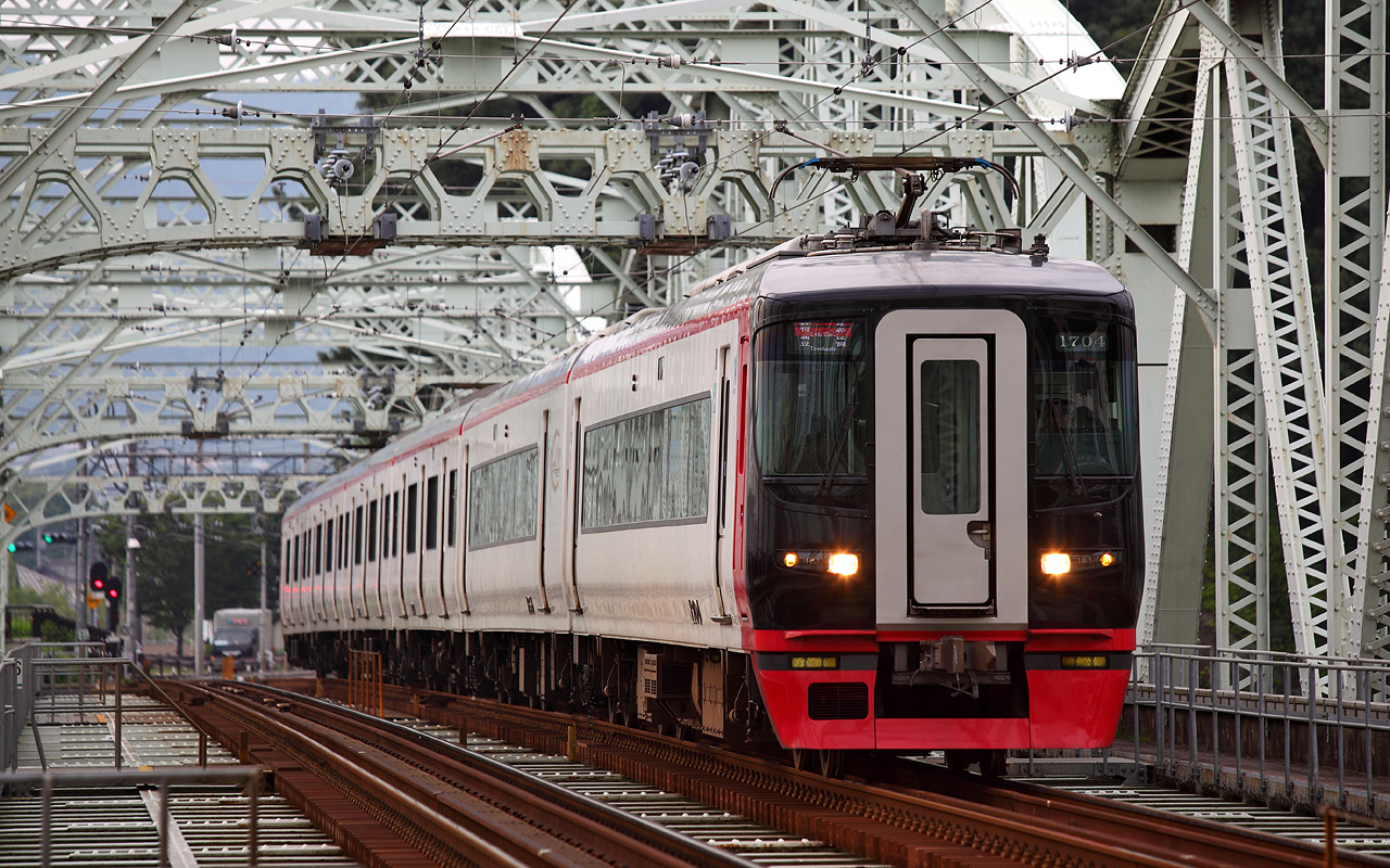 Meitetsu 1700 - 2300 series EMU (1704F between Shin Unuma Station and Inuyama Yūen Station. )